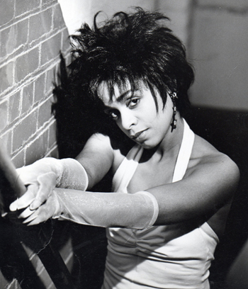 Rainy Davis Video Shoot "Still waiting"